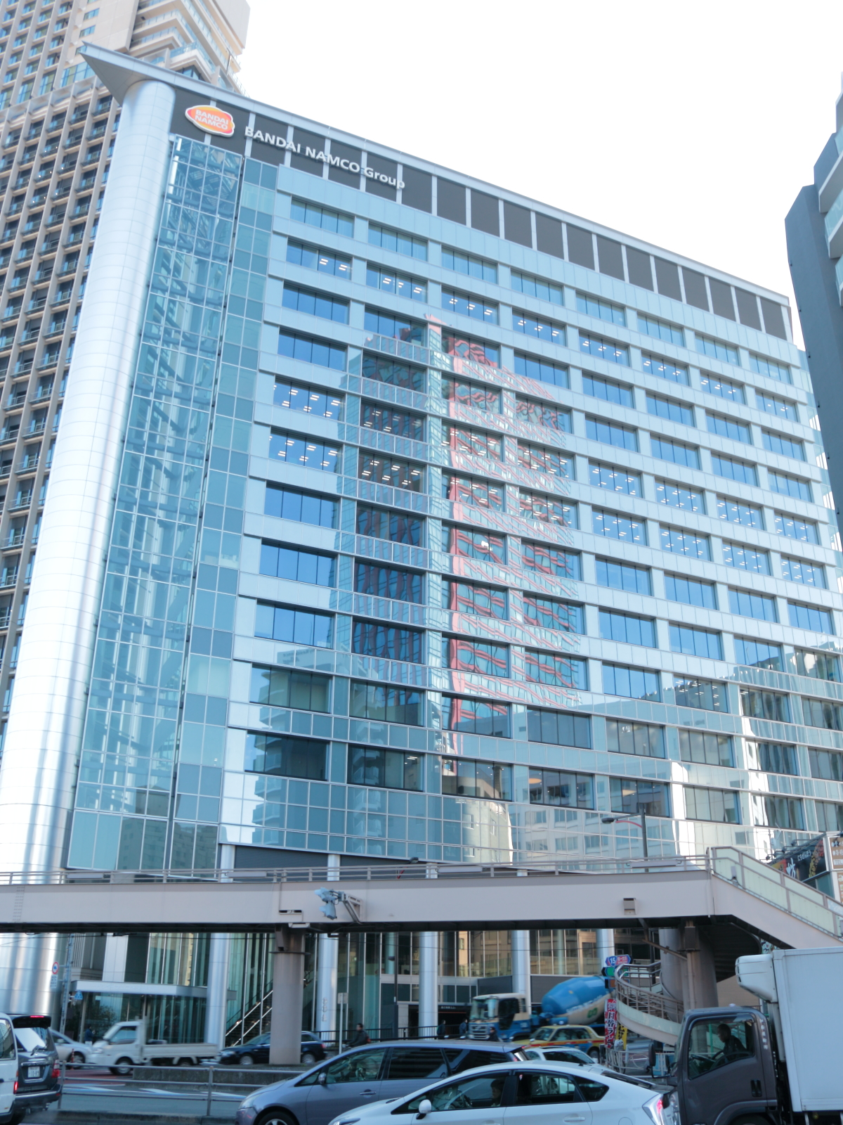 Sumitomo Realty & Development Mita Building, Minato, Tokyo (Headquarter of Bandai Namco Holdings).